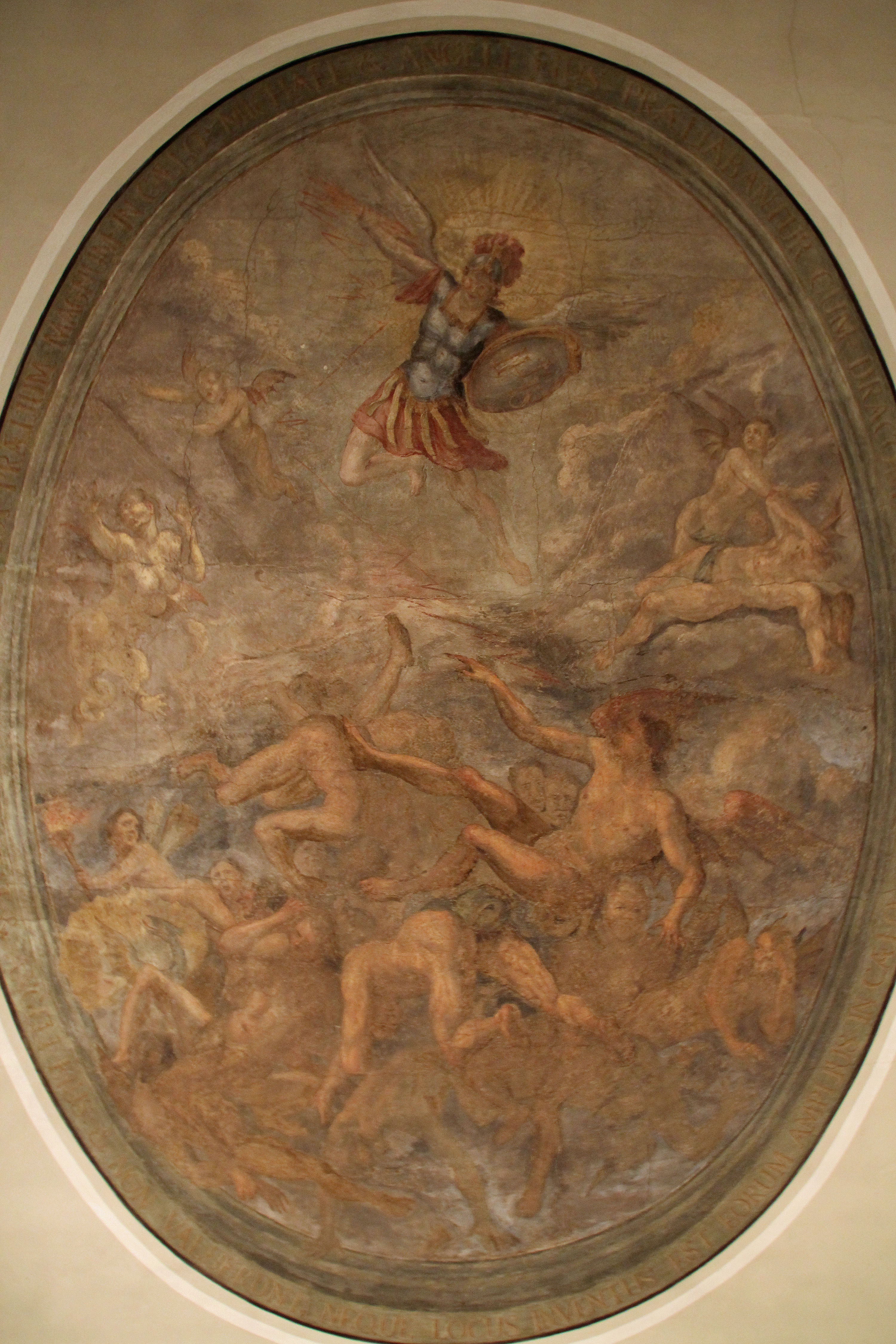 Michaelskapelle in Koblenz